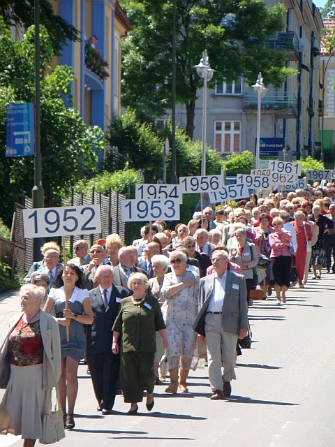 Economic Schools Complex in Sanok celebrates its 85th anniversary